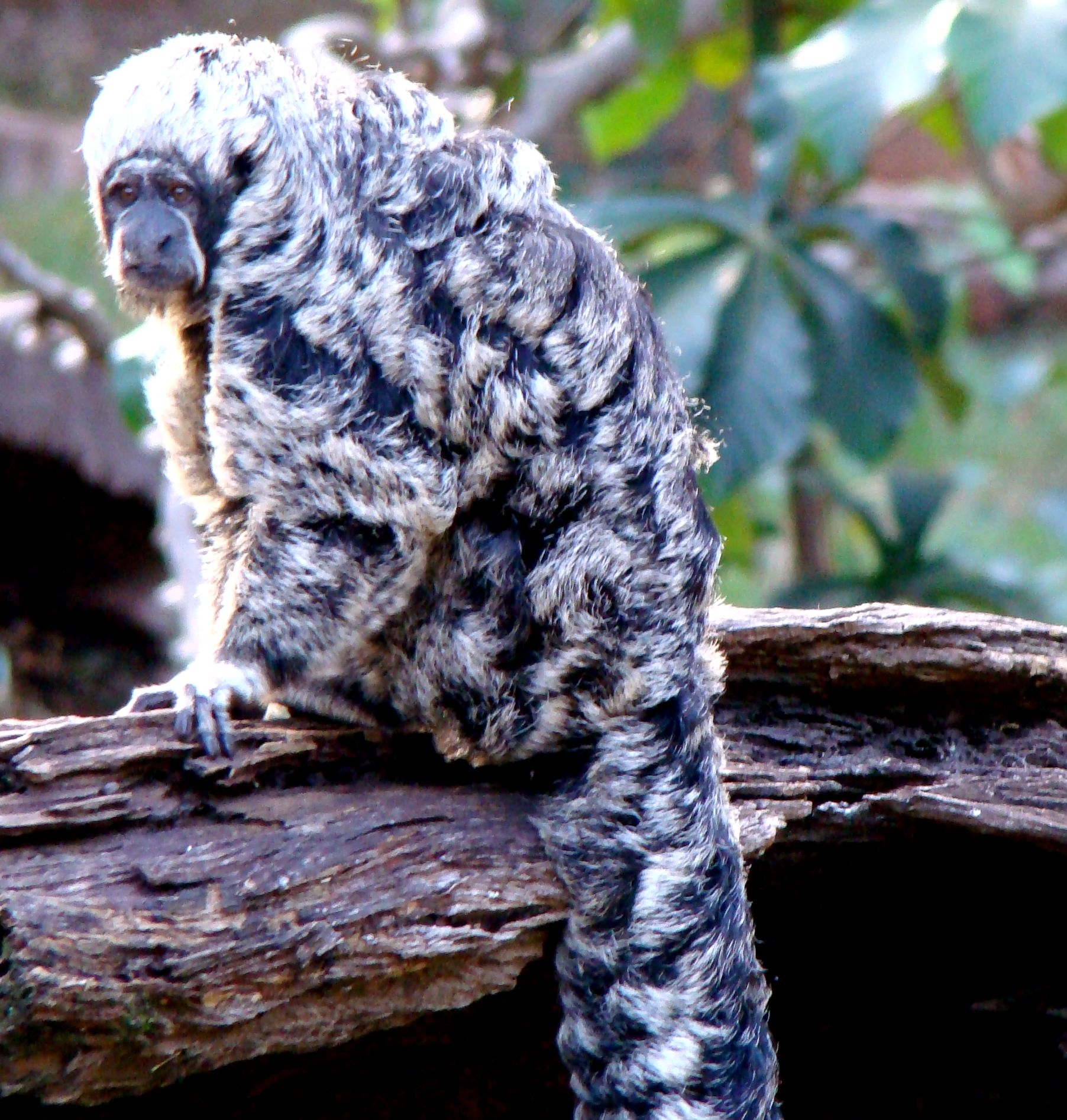 Rio Tapajós Saki (Pithecia irrorata) in Brazil.